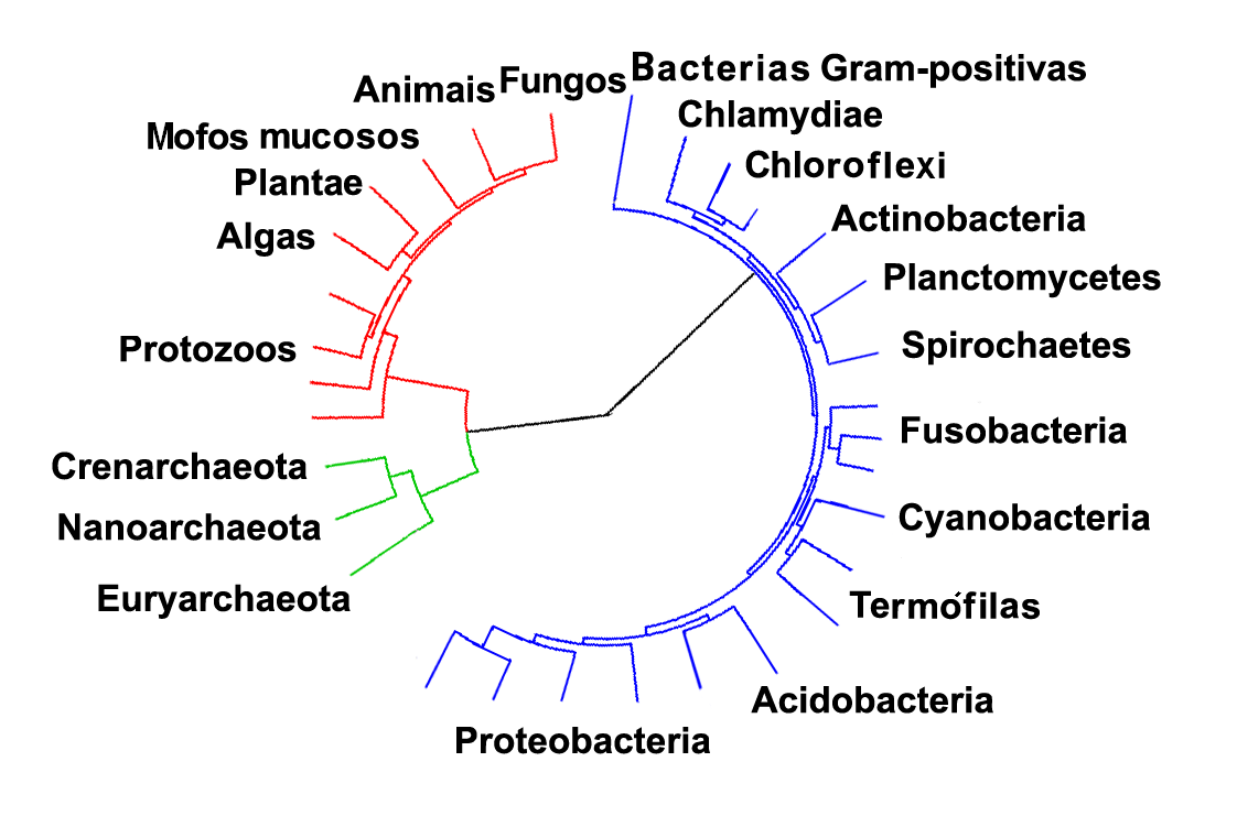 A highly resolved Tree Of Life, based on completely sequenced genomes [1]. The image was generated using iTOL: Interactive Tree Of Life[2], an online phylogenetic tree viewer and Tree Of Life resource. Eukaryotes are colored red, archaea green and bacteria blue. ↑ Ciccarelli, FD (2006). "Toward automatic reconstruction of a highly resolved tree of life." (Pubmed). Science 311(5765): 1283-7. ↑ Letunic, I (2007). "Interactive Tree Of Life (iTOL): an online tool for phylogenetic tree display and annotation.". Bioinformatics 23(1): 127-8.